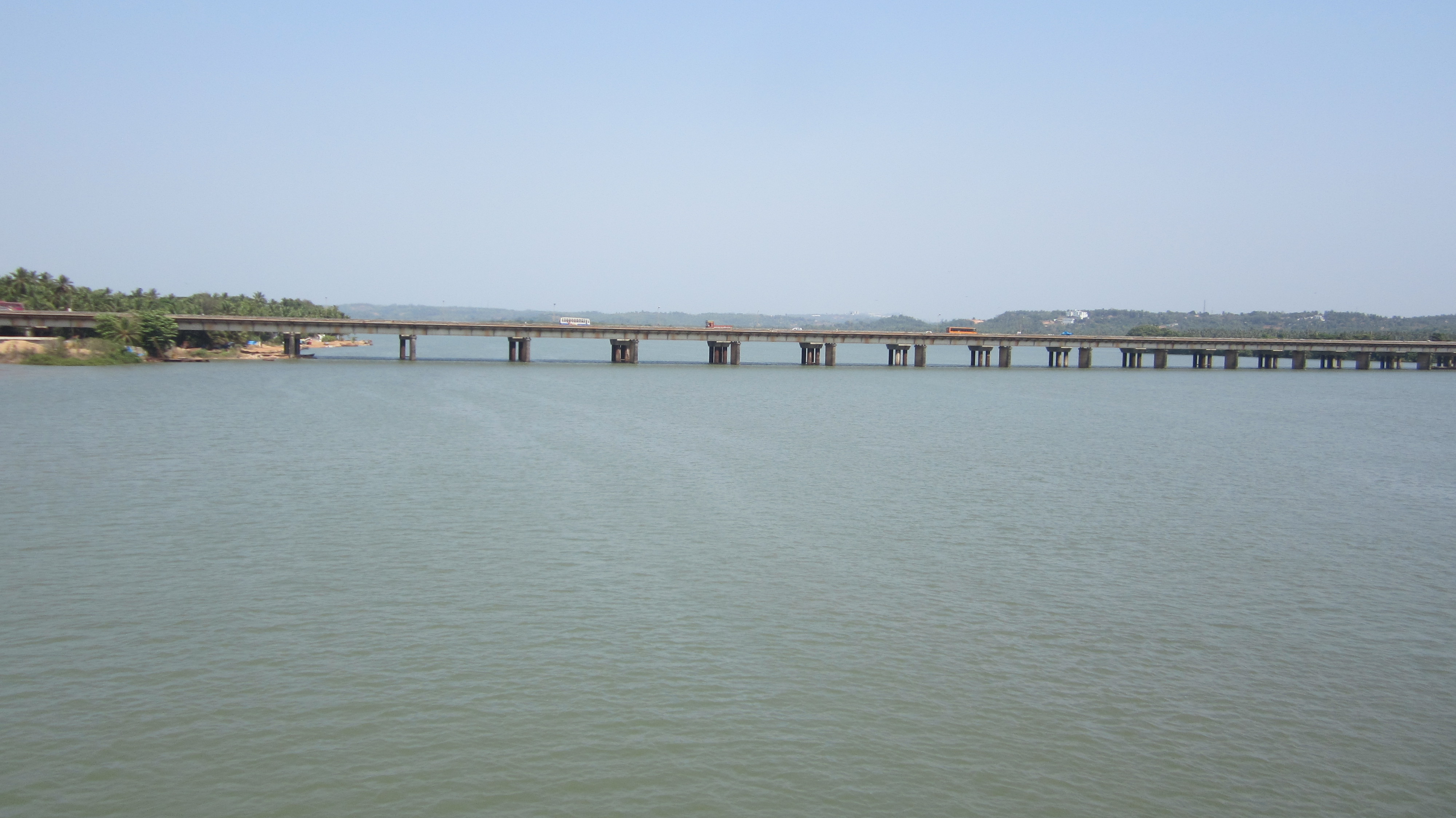 The Netravati River, Karnataka, India